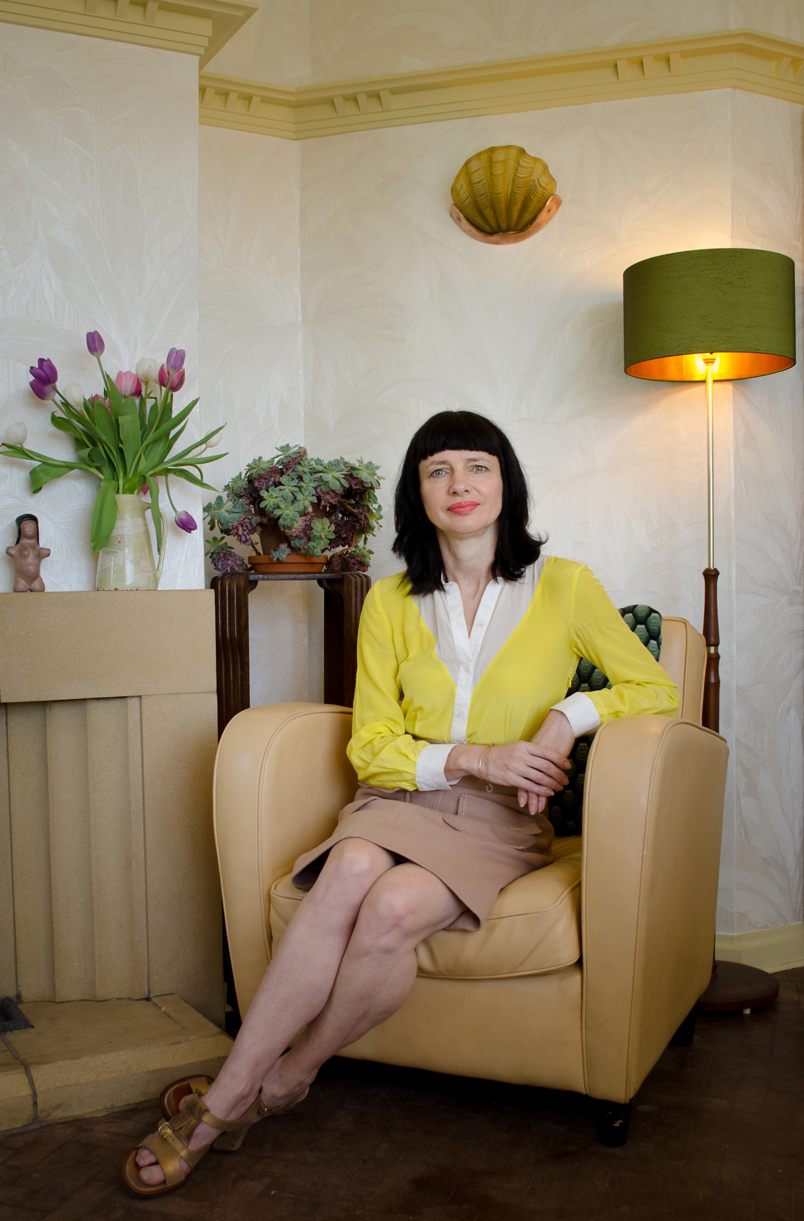 Carry Somers, at home.